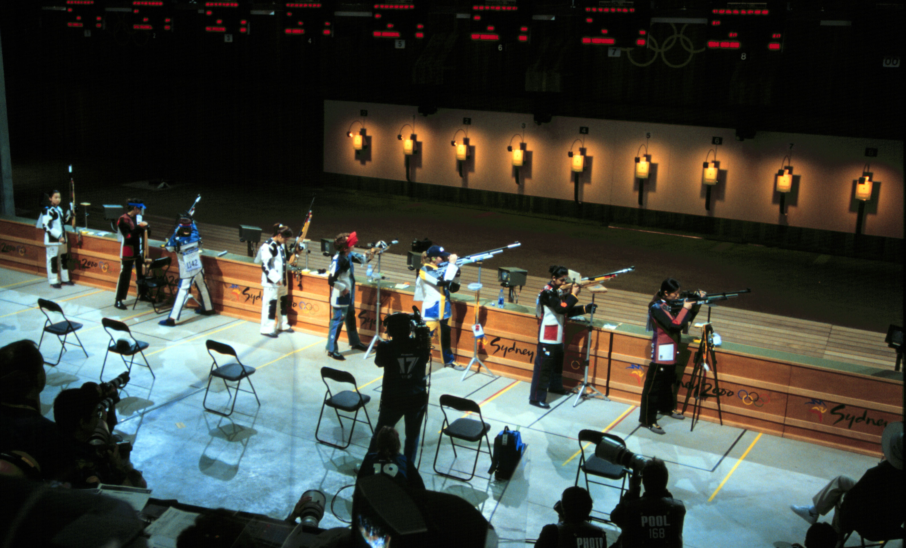 Nancy Johnson (sport shooter), Olympic shooter. Nancy Johnson (fifth from left, red visor) competes in the women's 10 meter air rifle competition at the 2000 Olympic Games in Sydney, Australia, on Sept. 16, 2000. Johnson is married to U.S. Army Staff Sgt. Ken Johnson, who is also on the U.S. Olympic shooting team.